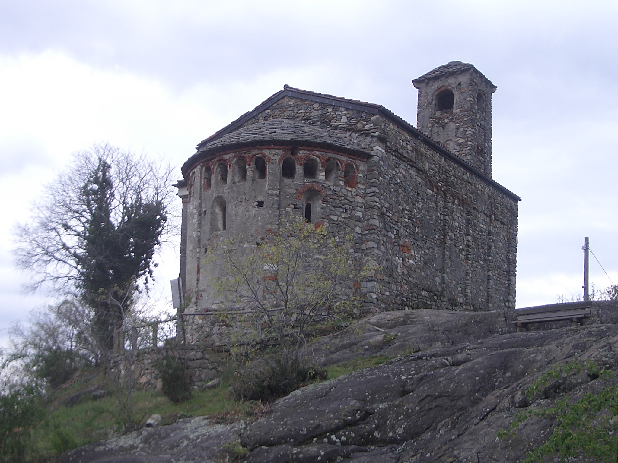 Church of Santo Stefano in Sessano, XI century, Chiaverano, Turin, Italy